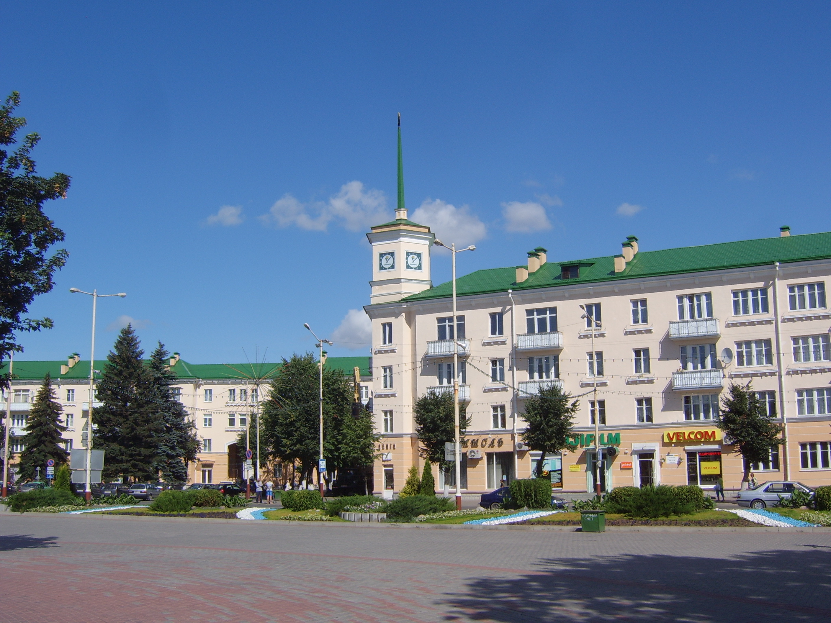 Baranavichy, clock tower on the area of Lenina